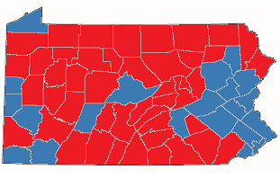 Country results for 2012 PA Treasurer election. Blue= McCord, Democratic. Red= Republican, Irey.